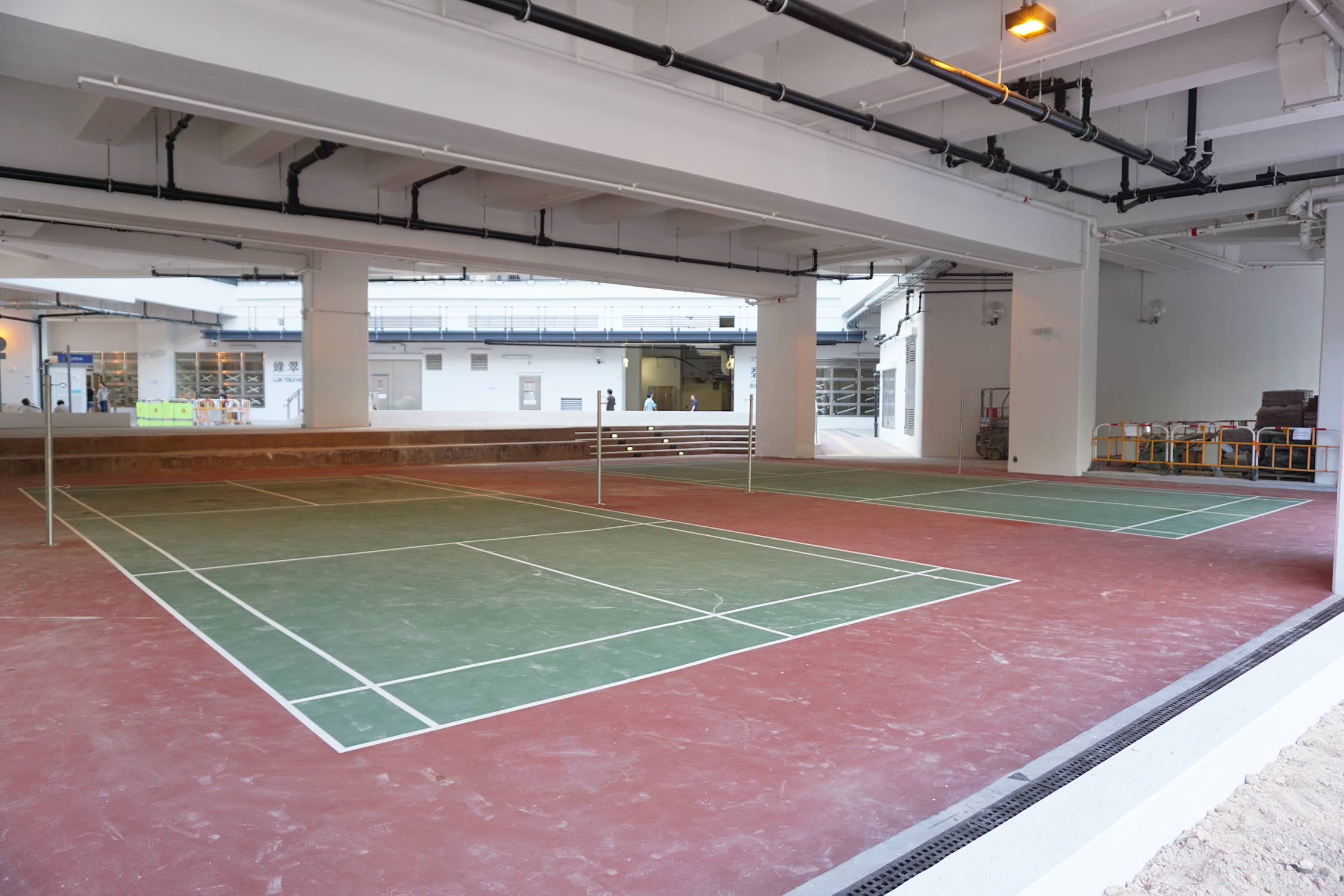 Kwai Tsui Estate in Kwai Fong, Hong Kong.